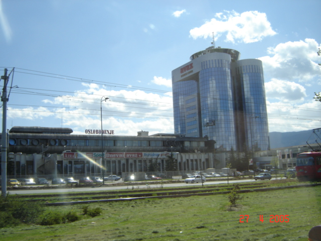 The headquarters of Sarajevo-based newspapers Oslobodjenje and Dnevni Avaz, in 2005